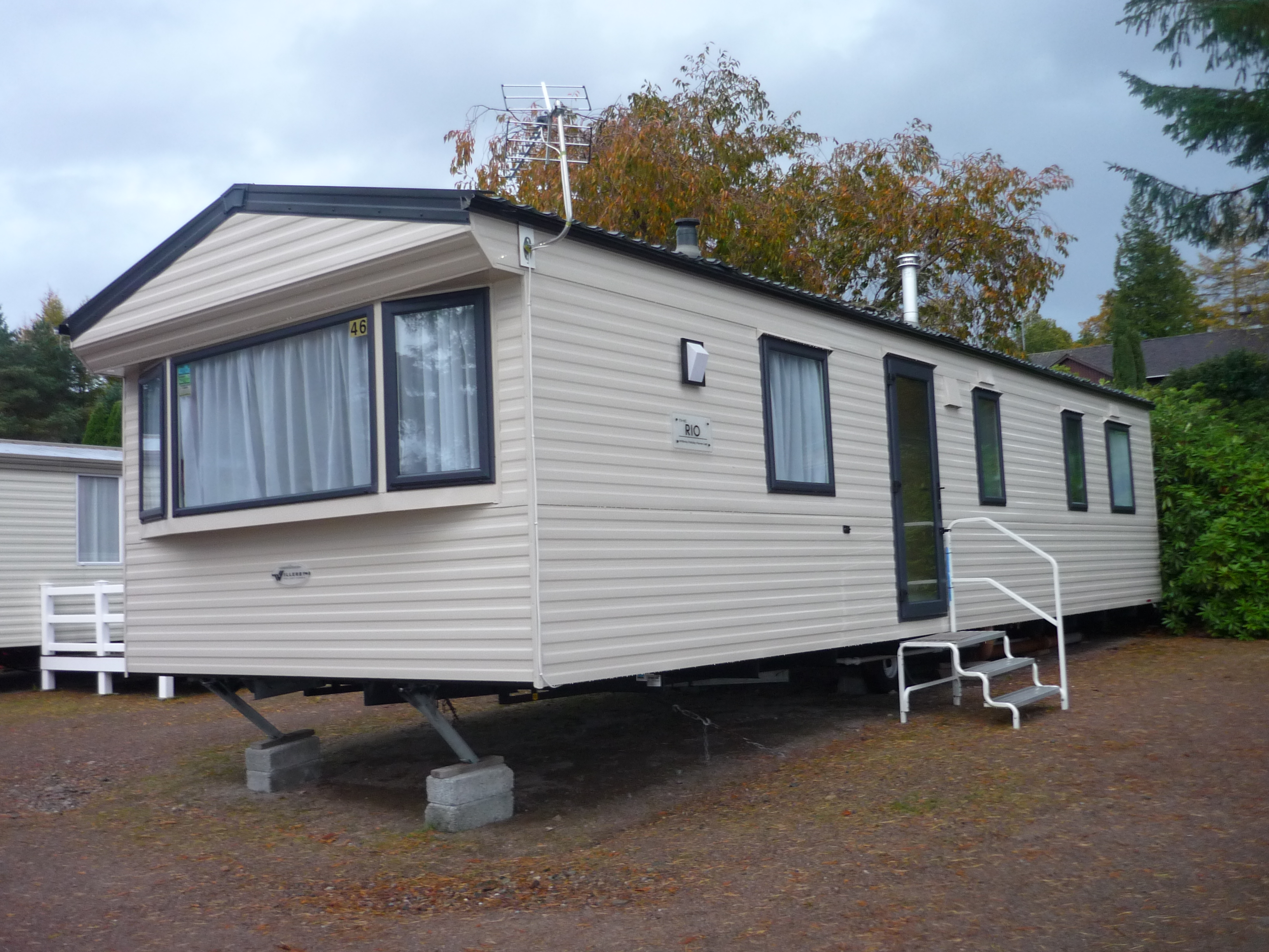 A mobile home in Fort William, Scotland